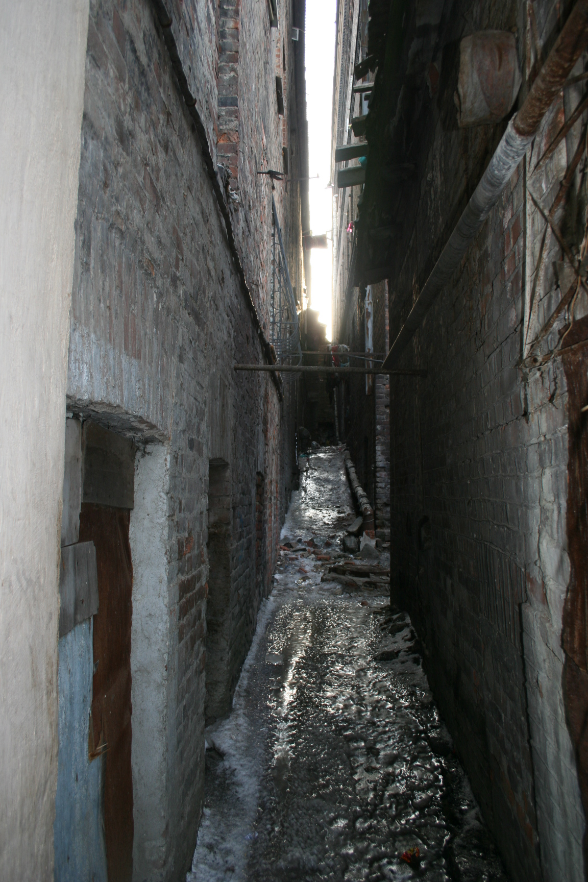 A secret thoroughfare in former chinatown Millionka in Vladivostok, Russia. Located somewhere between Admirala Fokina and Semenovskaya Streets